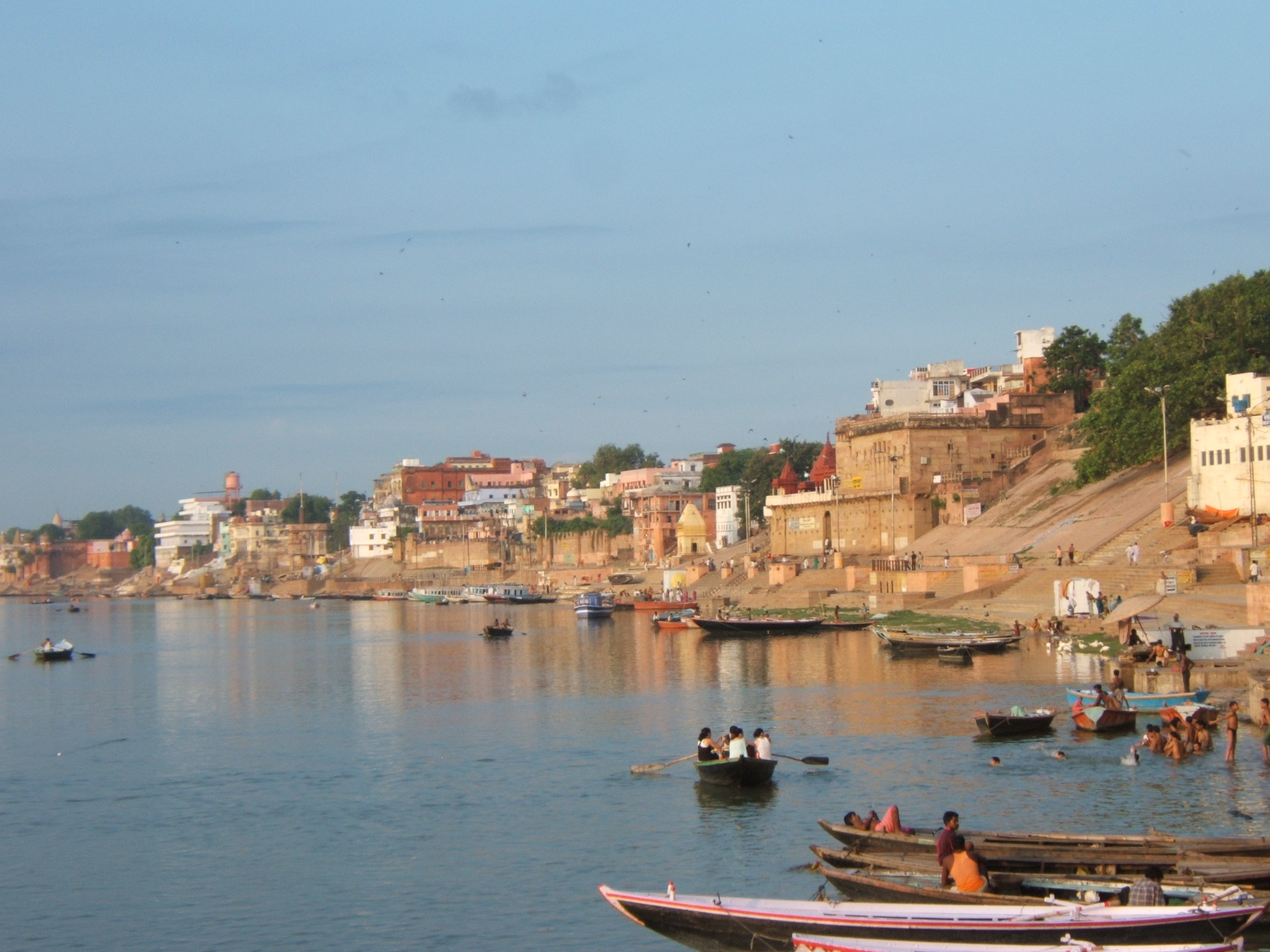 Varanasi ghats at the sunrise